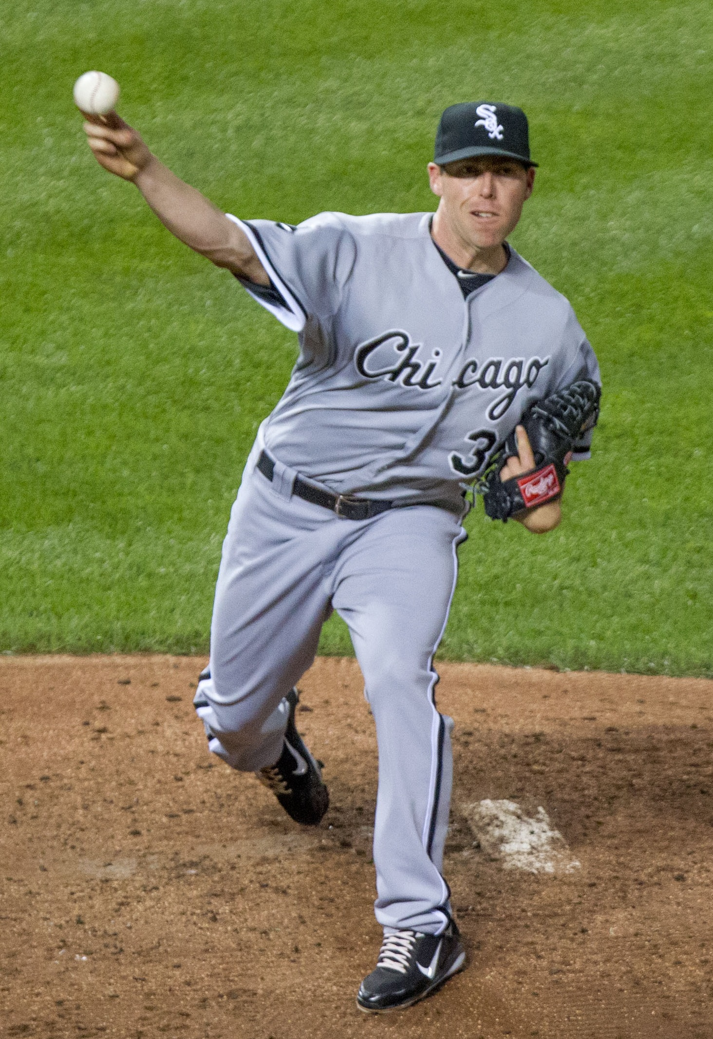 Chicago White Sox pitcher Dylan Axelrod – Chicago White Sox at Baltimore Orioles August 29, 2012